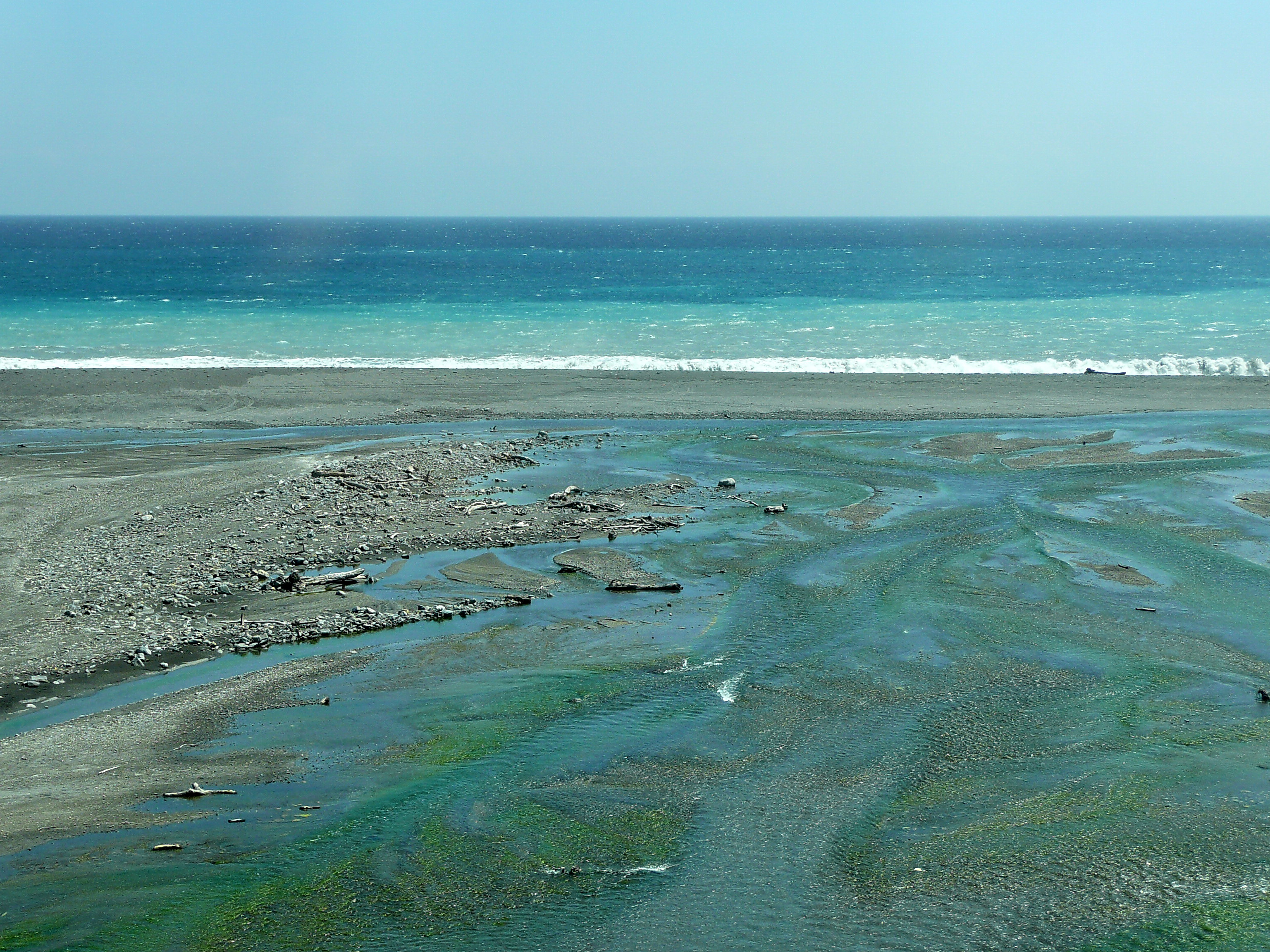 Estuary of Jin-lun River 金崙溪口